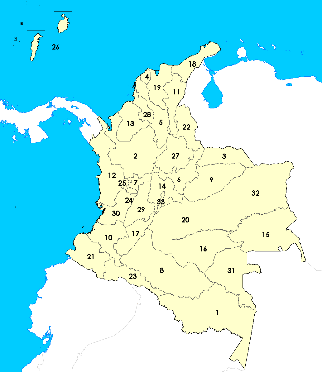 Colombia sectioned by political departments in new look